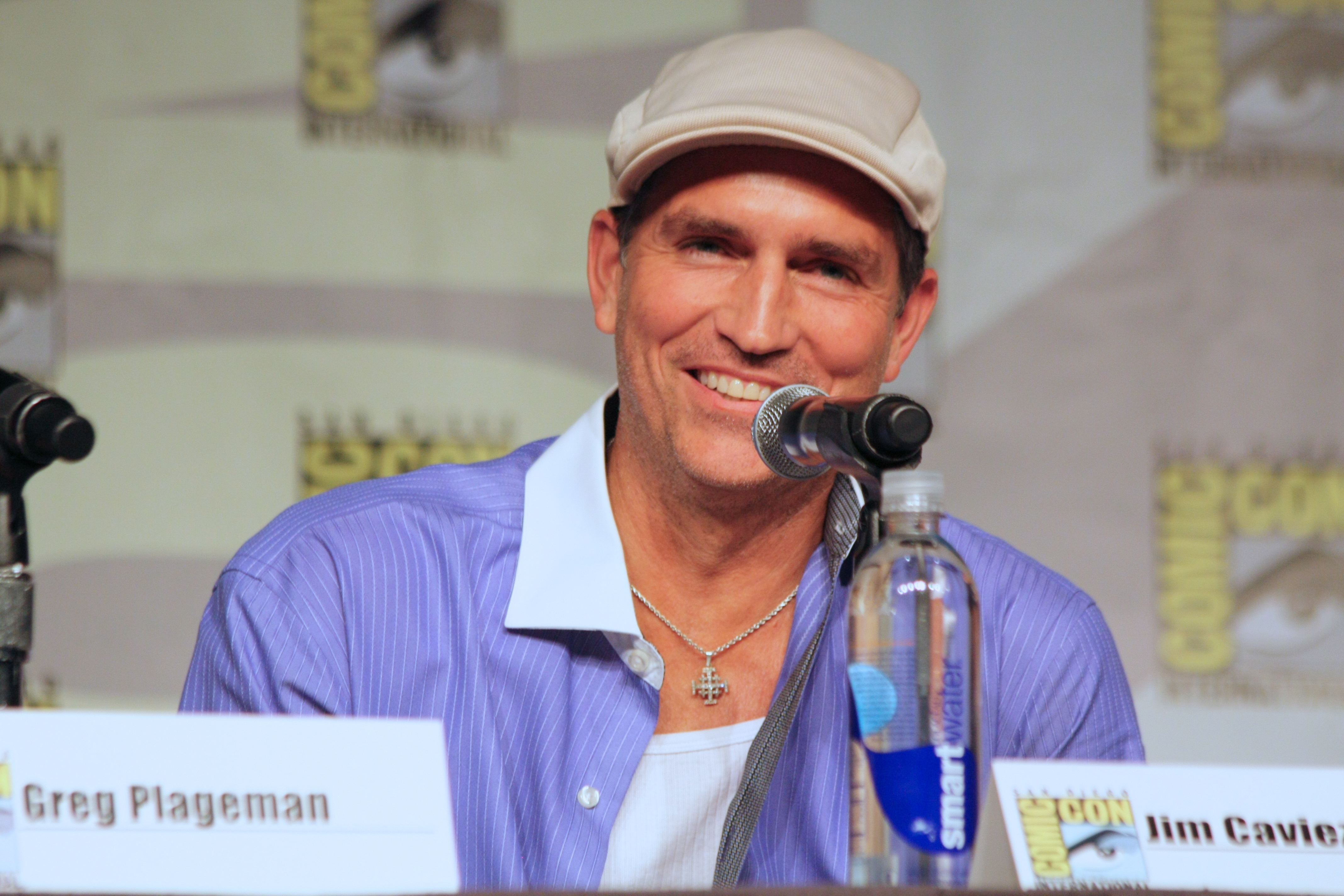 Jim Caviezel (John) Person of Interest Panel at the 2014 San Diego Comic Con